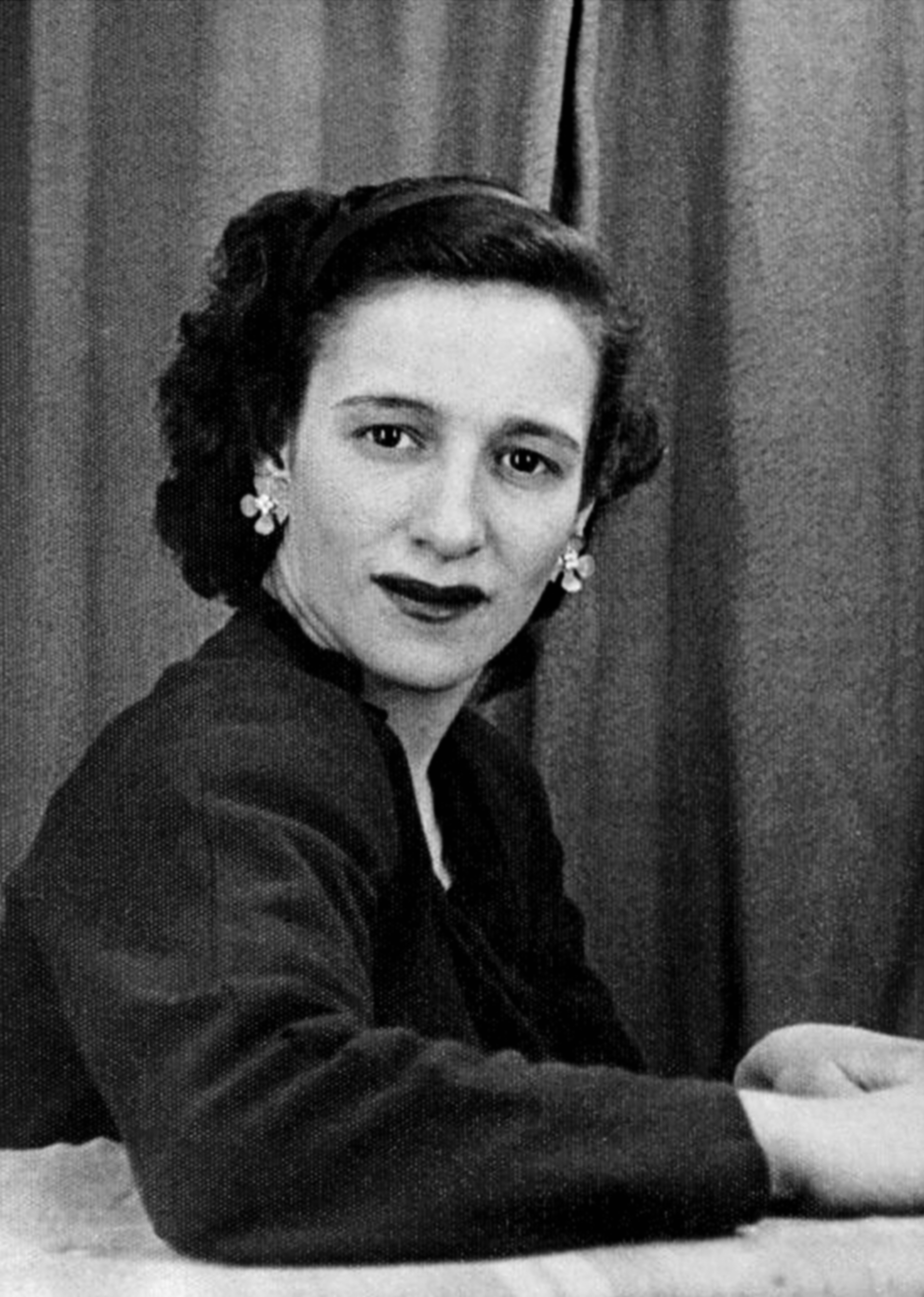 Maddalena Cerasuolo, Italian partisan, bronze medal for military valor, September 1950, Naples